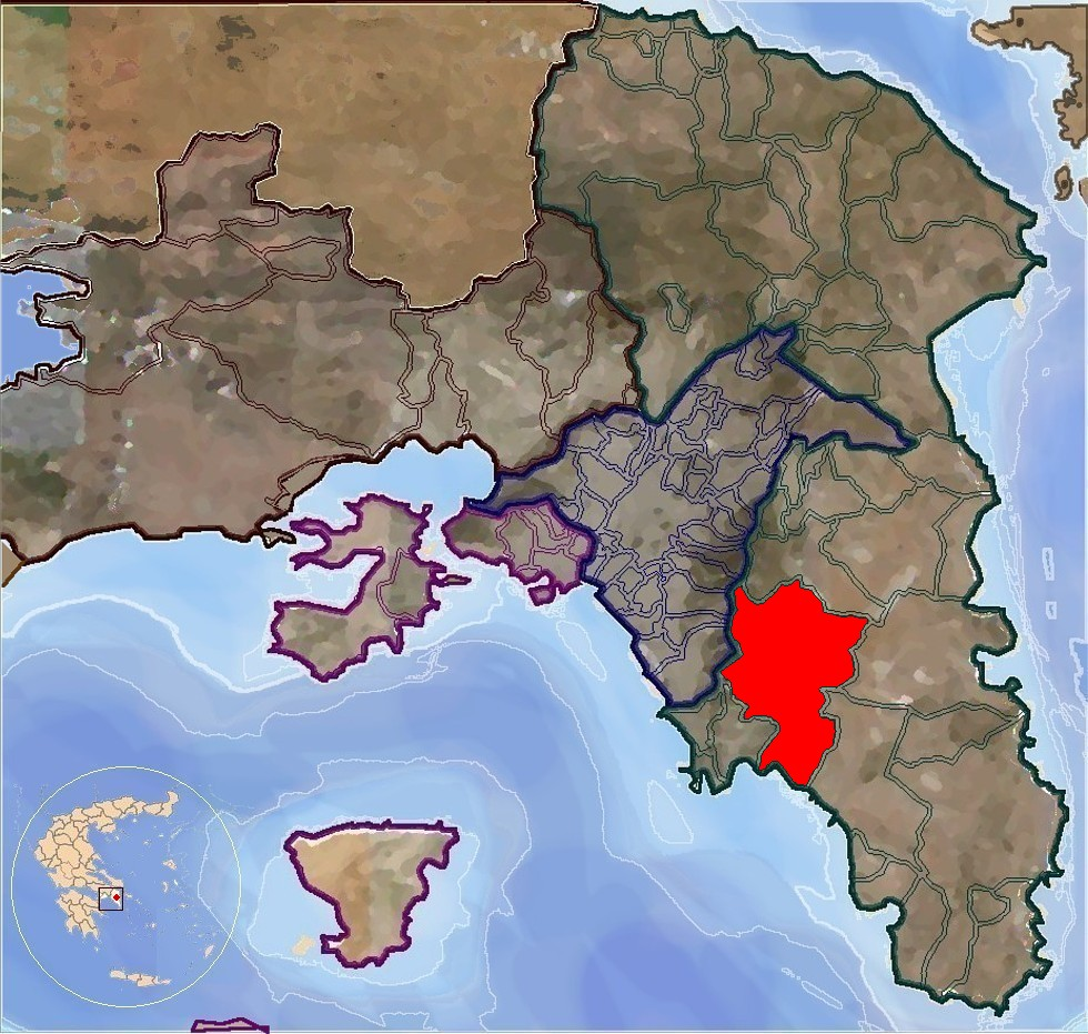 map